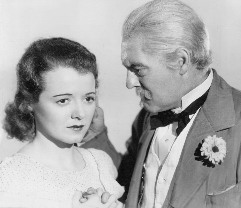 Photo of Janet Gaynor and Lionel Barrymore from the American drama film Carolina (1934).